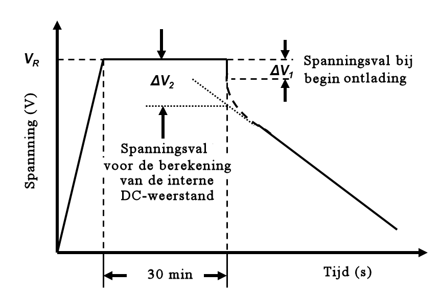 Measuring of the internal resistance of supercapacitors, now with Dutch txtx